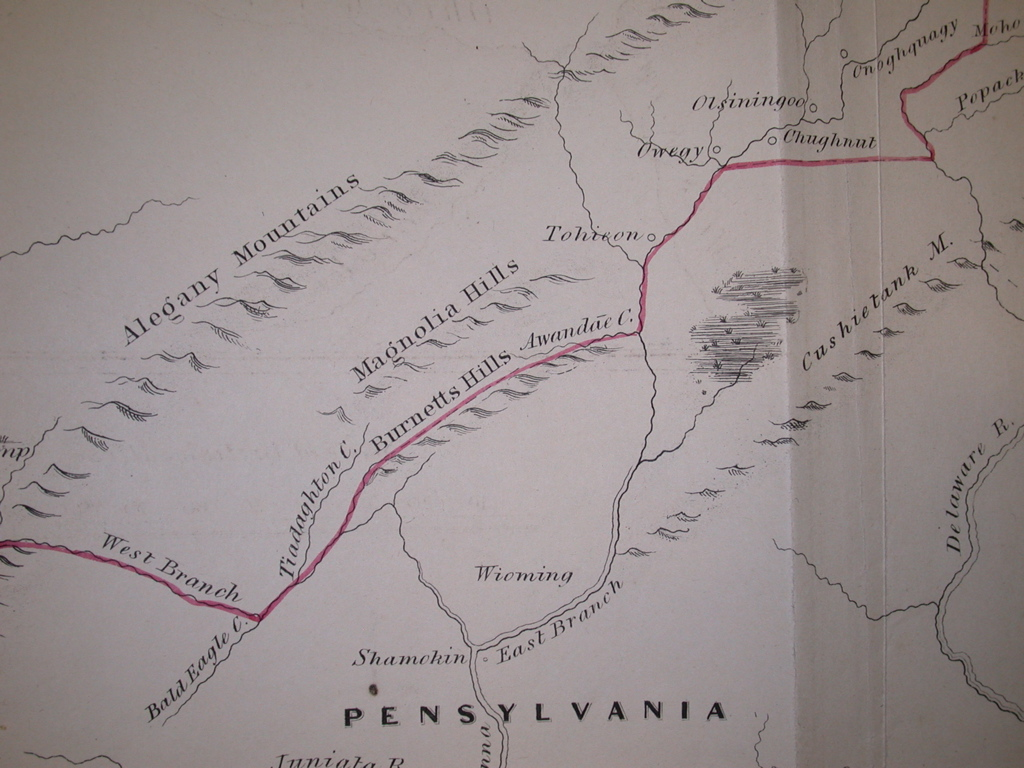 Fragment of Guy Johnson's map of the Line of Property 1768; section at Burnetts Hills